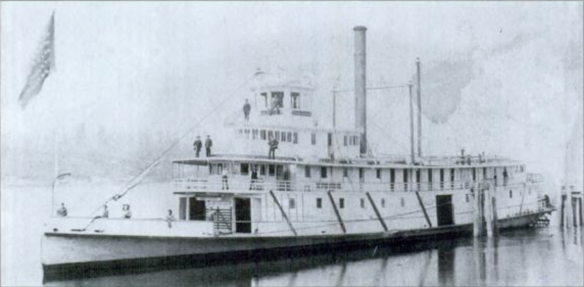 Emma Hayward,probably on Puget Sound, 1891 or earlier